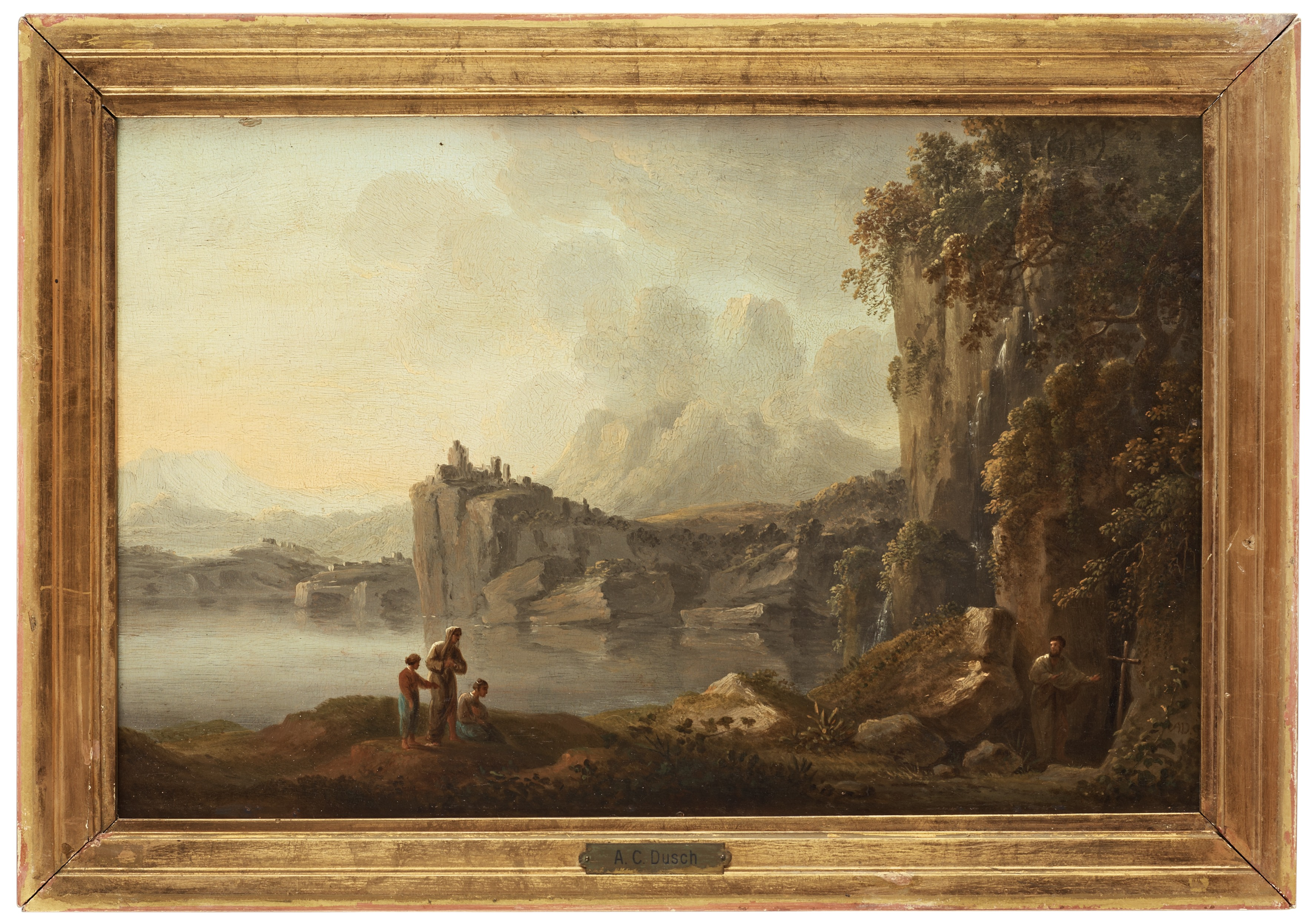 Anton Carl Dusch: Italian landscape with Hermit at a grotto, 28,5 x 44,5 cm, sold at Bukowskis, Stockholm, sale 559, 2010